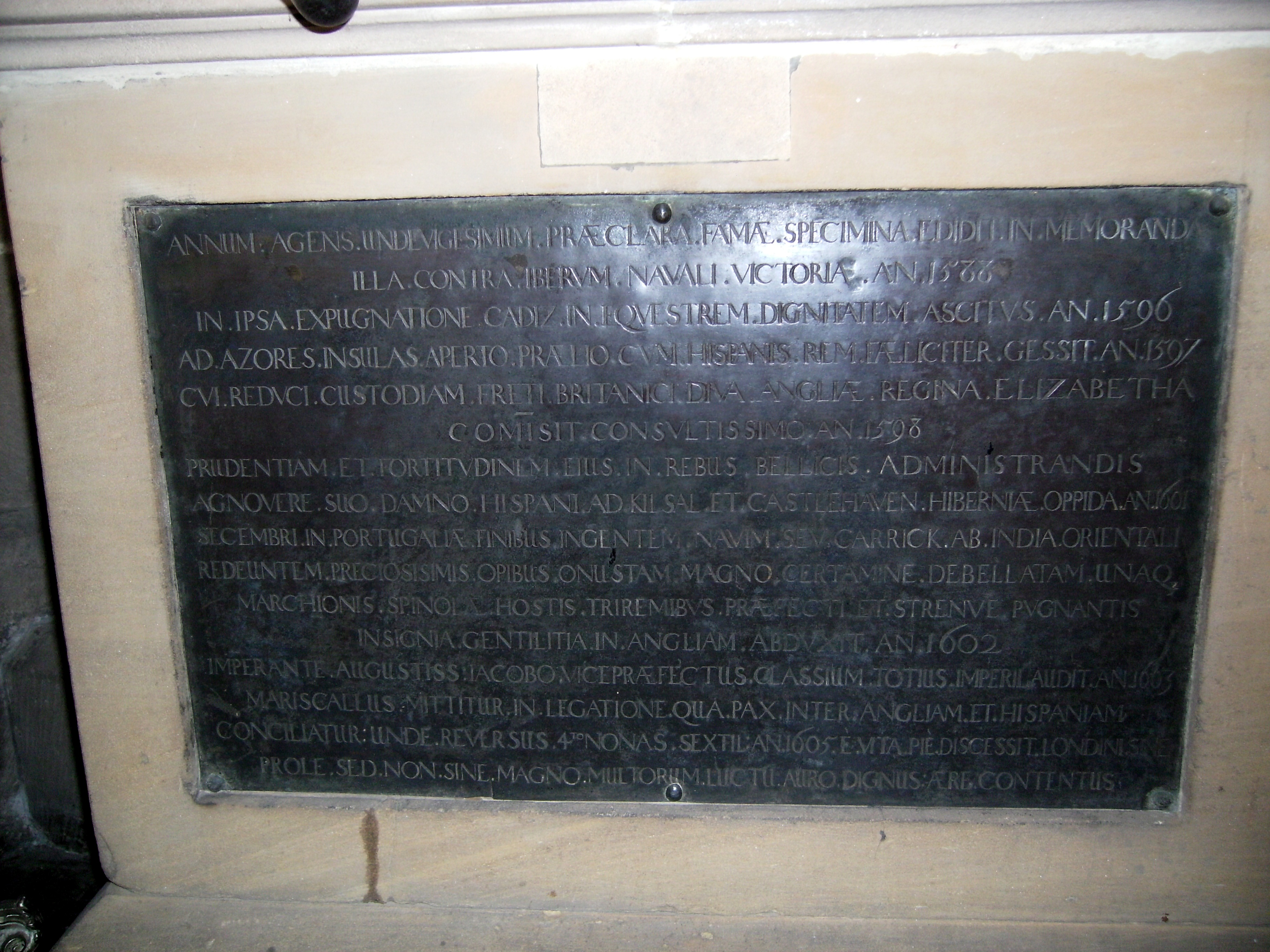 Inscription on memorial to Vice Admiral Richard Leveson (1570-1605), giving career details. Wolverhampton St Peter's Collegiate Church.